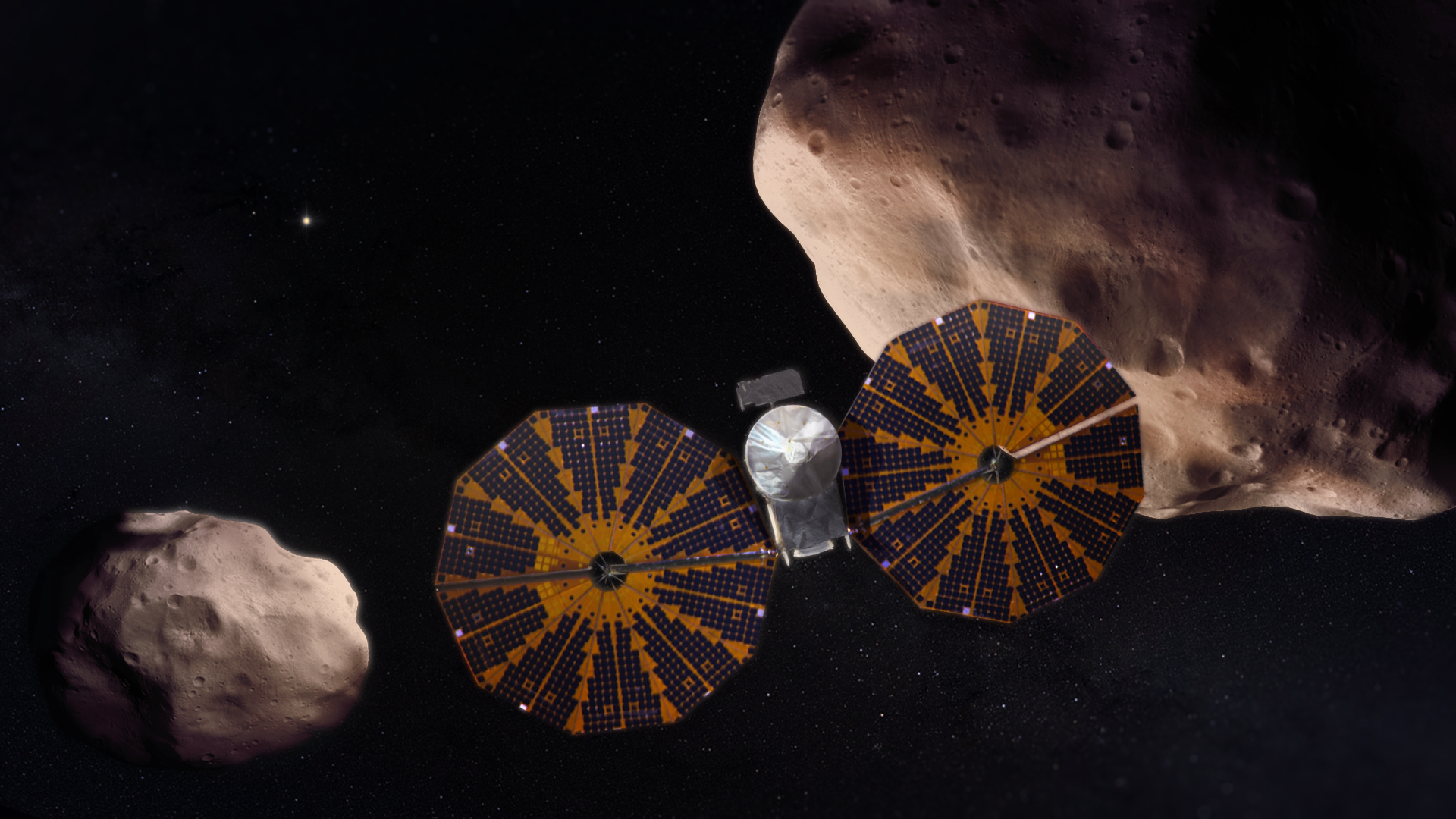 This artist’s concept depicts the Lucy spacecraft flying past the Trojan asteroid (617) Patroclus and its binary companion Menoetius. Lucy will be the first mission to explore Jupiter’s Trojan asteroids – ancient remnants of the outer solar system trapped in the giant planet’s orbit.